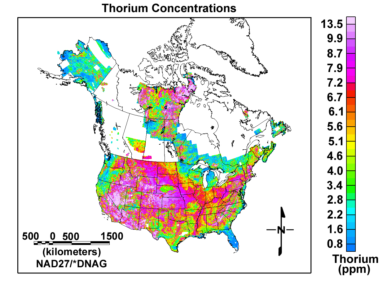 Map of Thorium Concentrations (most of USA and some of Canada) from USGS Open-File Report 2005-1413